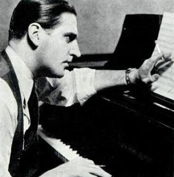 Life magazine ad for Maxwell House coffee photo of Meredith Willson from the Maxwell House Show Boat radio program. Copyright details There are no copyright marks on the full pages of the ad, as can be seen at the link above. The pages are clearly marked as advertisements, so they are not a part of any Life Magazine copyrights. US Copyright Office page 3-magazines are collective works (PDF) "A notice for the collective work will not serve as the notice for advertisements inserted on behalf of persons other than the copyright owner of the collective work. These advertisements should each bear a separate notice in the name of the copyright owner of the advertisement." Image can be dated from the magazine's date, June 12, 1937.